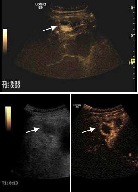 Doppler ultrasound before and after embolization of hepatocellular carcinoma. See Ultrasonography of liver tumors.